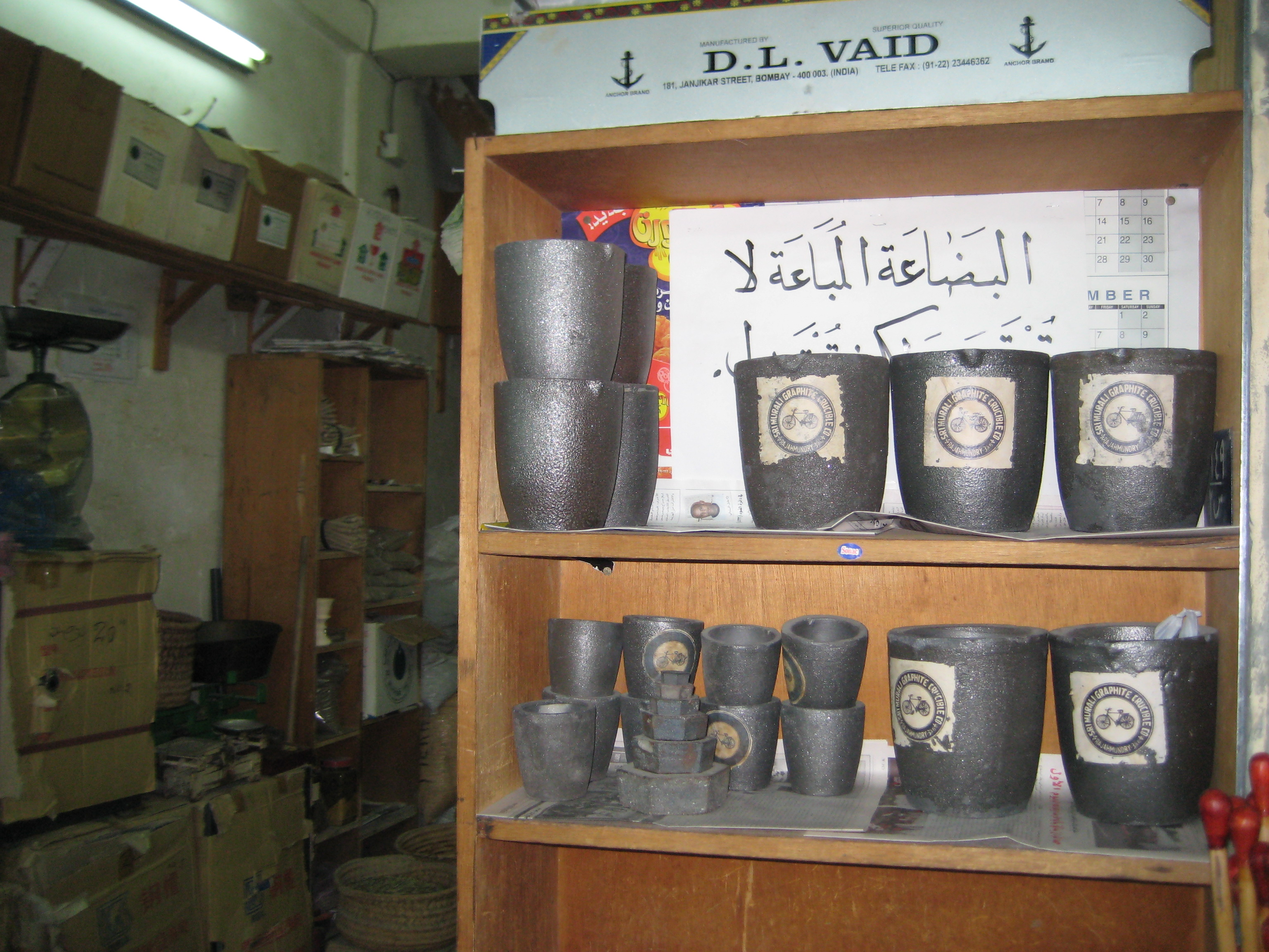 Bahrain Souk Manama - Seller of crucible and jewellry manufacturing equipment